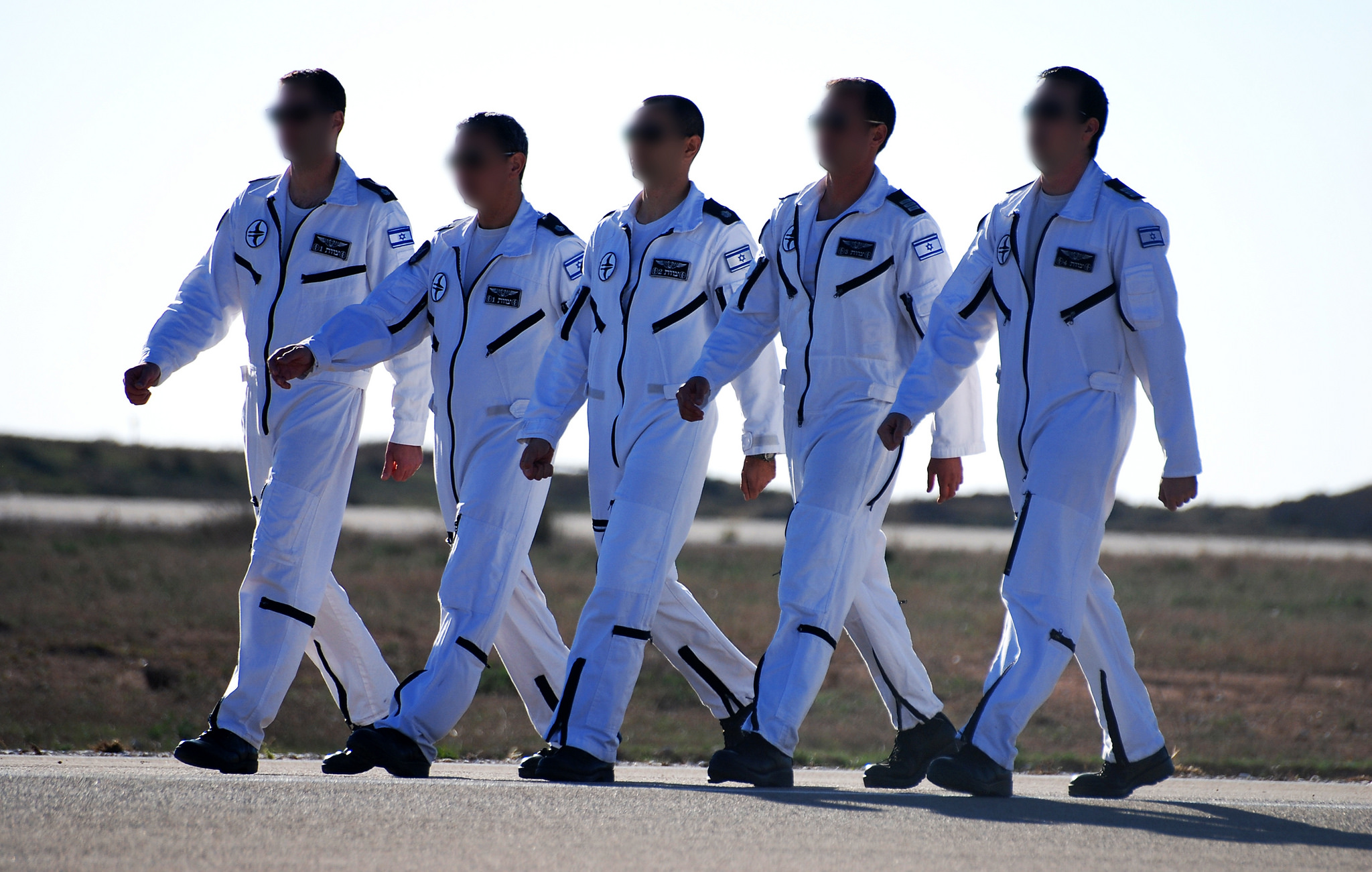 Israeli Air Force Aerobatic Team